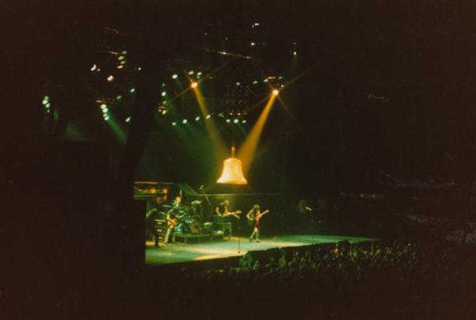 AC/DC performing live in Birmingham (1981).